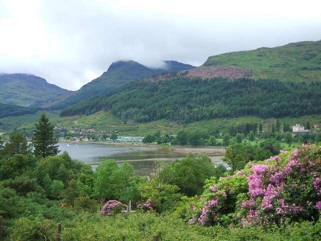 Lochgoilhead View from the Cowal Way path.